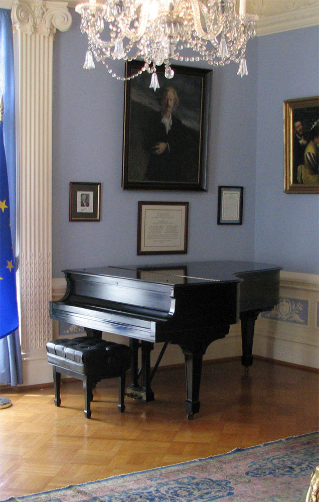 Ignacy Paderewski's Steinway grand piano.